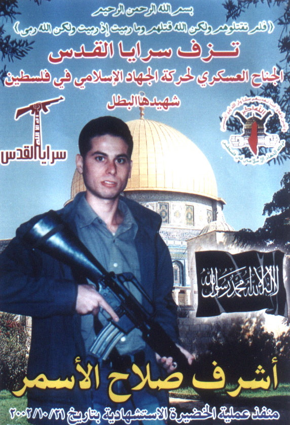 10/25/2002 IDF forces operating in Jenin found this poster glorifying suicide bomber Ashraf Sallah Alasmar. The Israel Defense Forces Facebook The Israel Defense Forces blog Follow us on Twitter